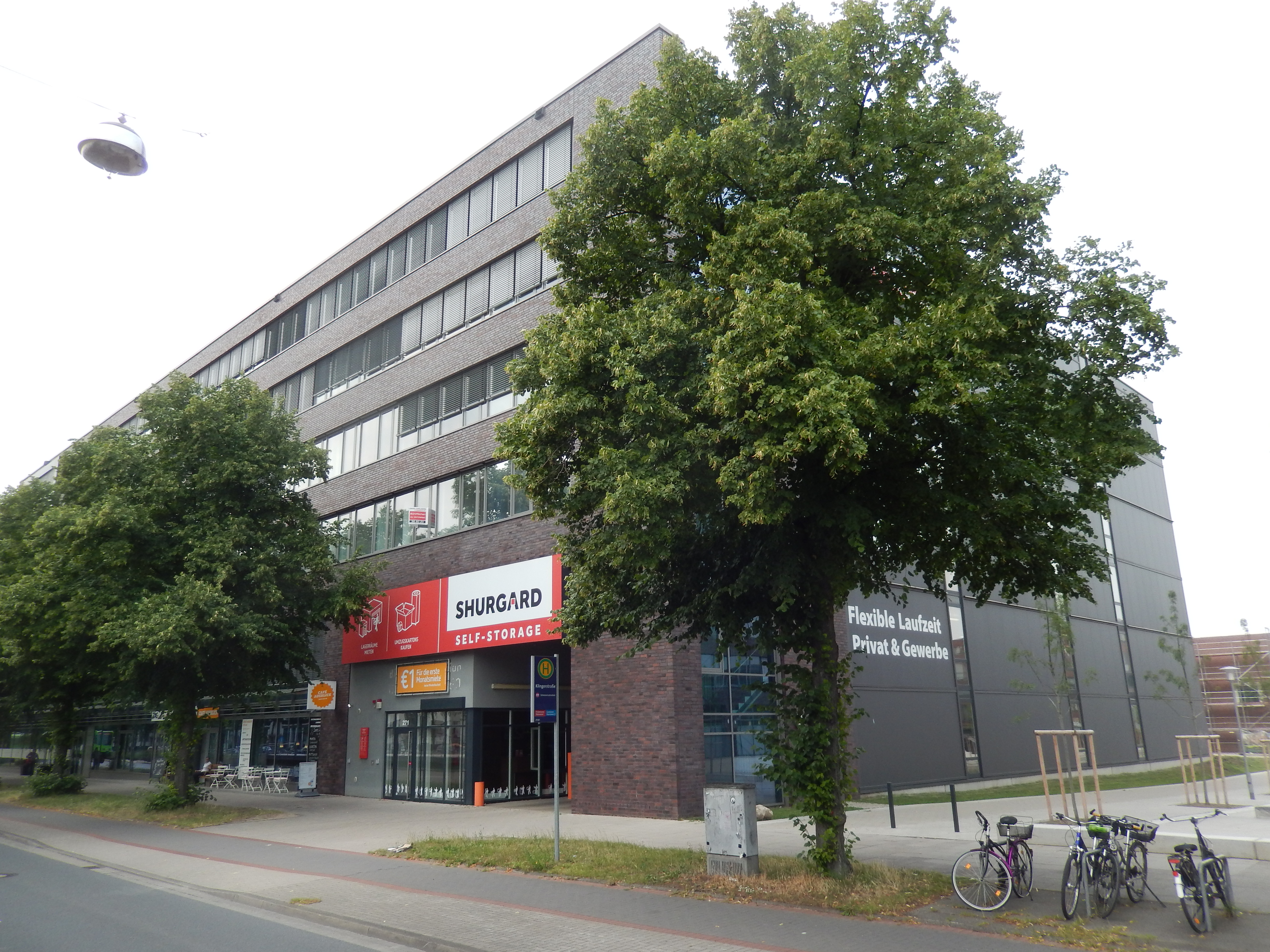 SHURGARD facility in Hannover, Germany.